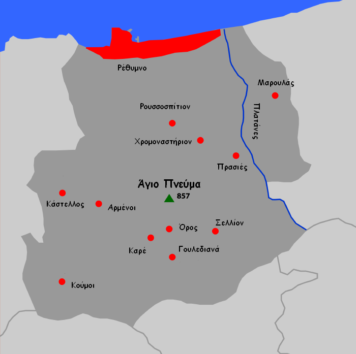 Map of the villages of Rethimno municipality (in Greek)